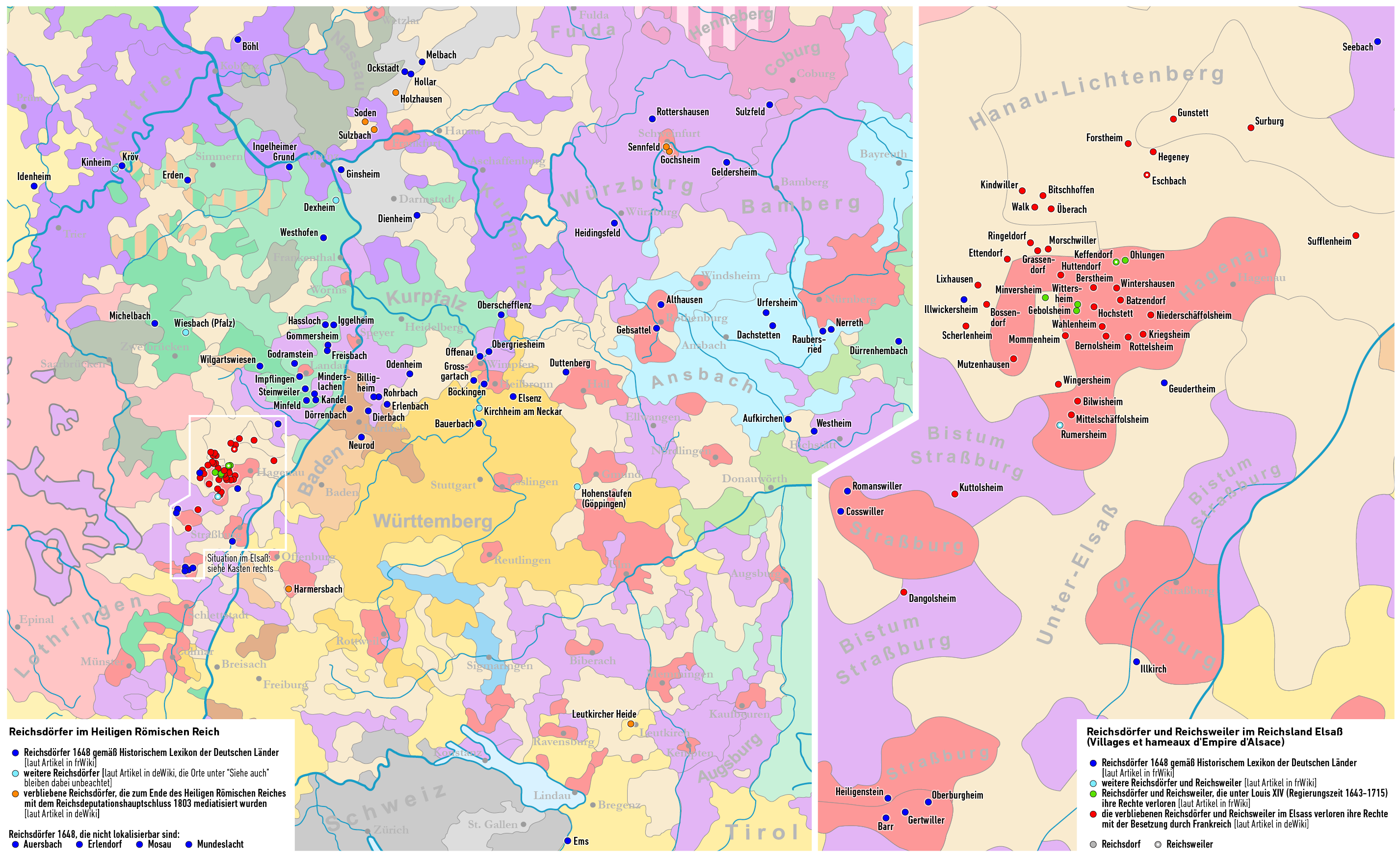 Map: Imperial Village distribution in the Holy Roman Empire